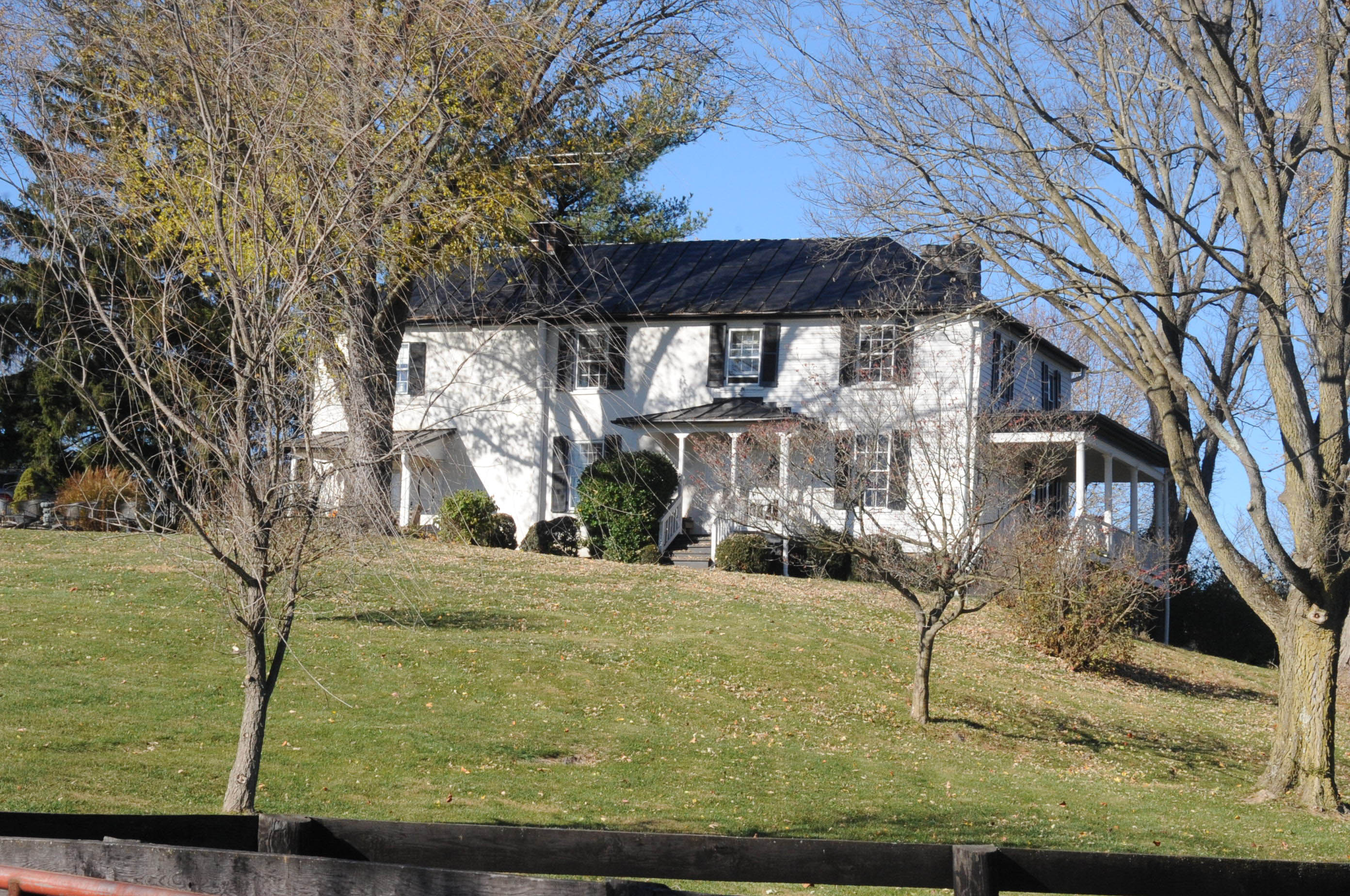 This is the Rockland Rural Historic District. THIS IS A 10,000 ACRE DISTRICT WITH LARGE FARMS. THIS CONTRIBUTING HOUSE WAS BUILT IN 1790 AND IS LOCATED AT 2479; ROCKLAND ROAD.